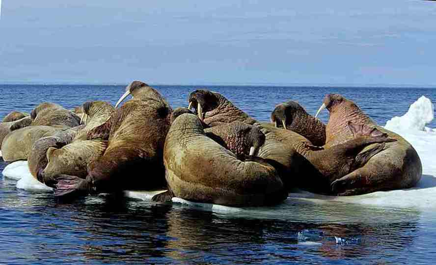 Atlantic walrus herd (Odobenus rosmarus rosmarus), on ice flow in Foxe Basin (Nunavut, Canada)